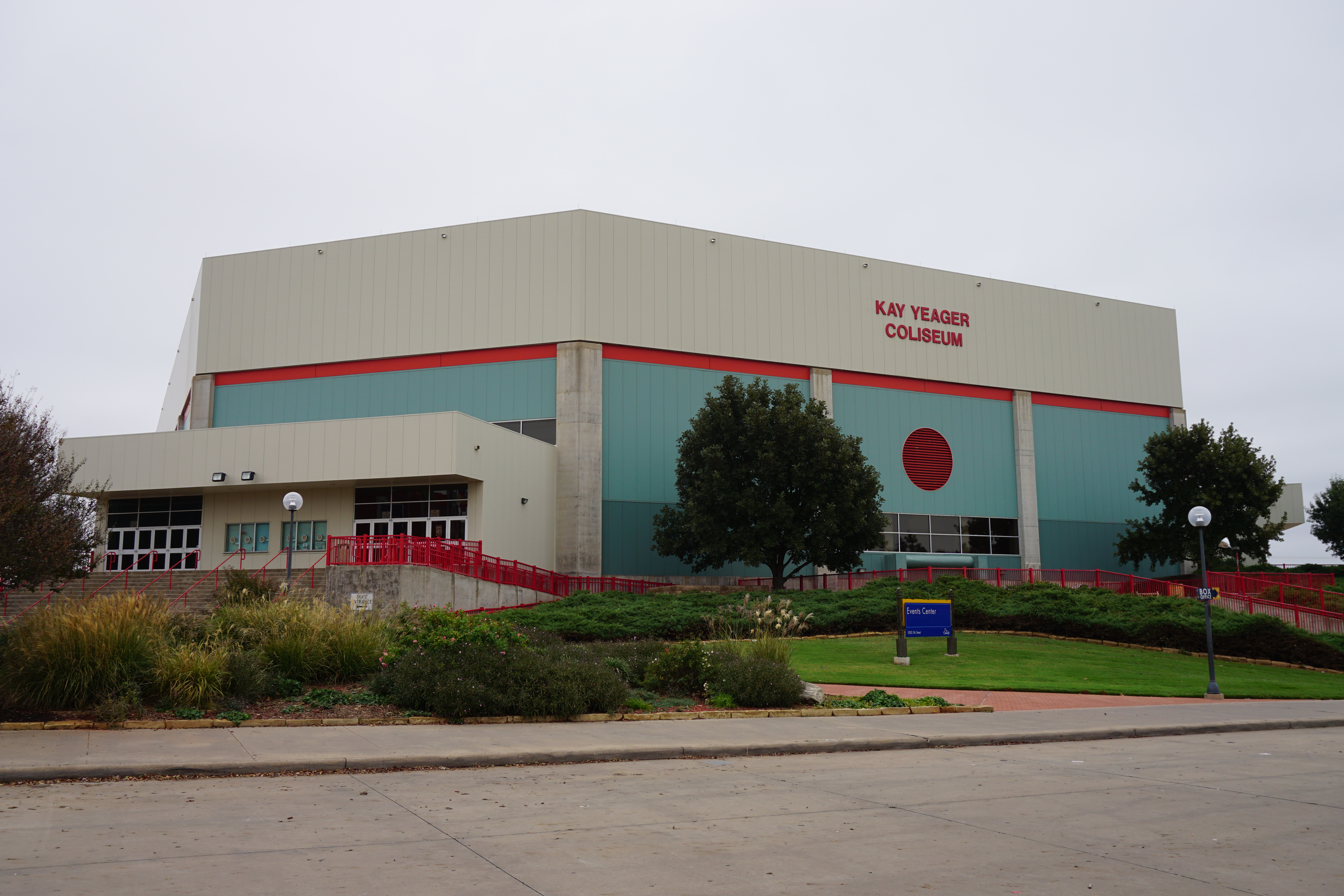 The Kay Yeager Coliseum in Wichita Falls, Texas (United States).